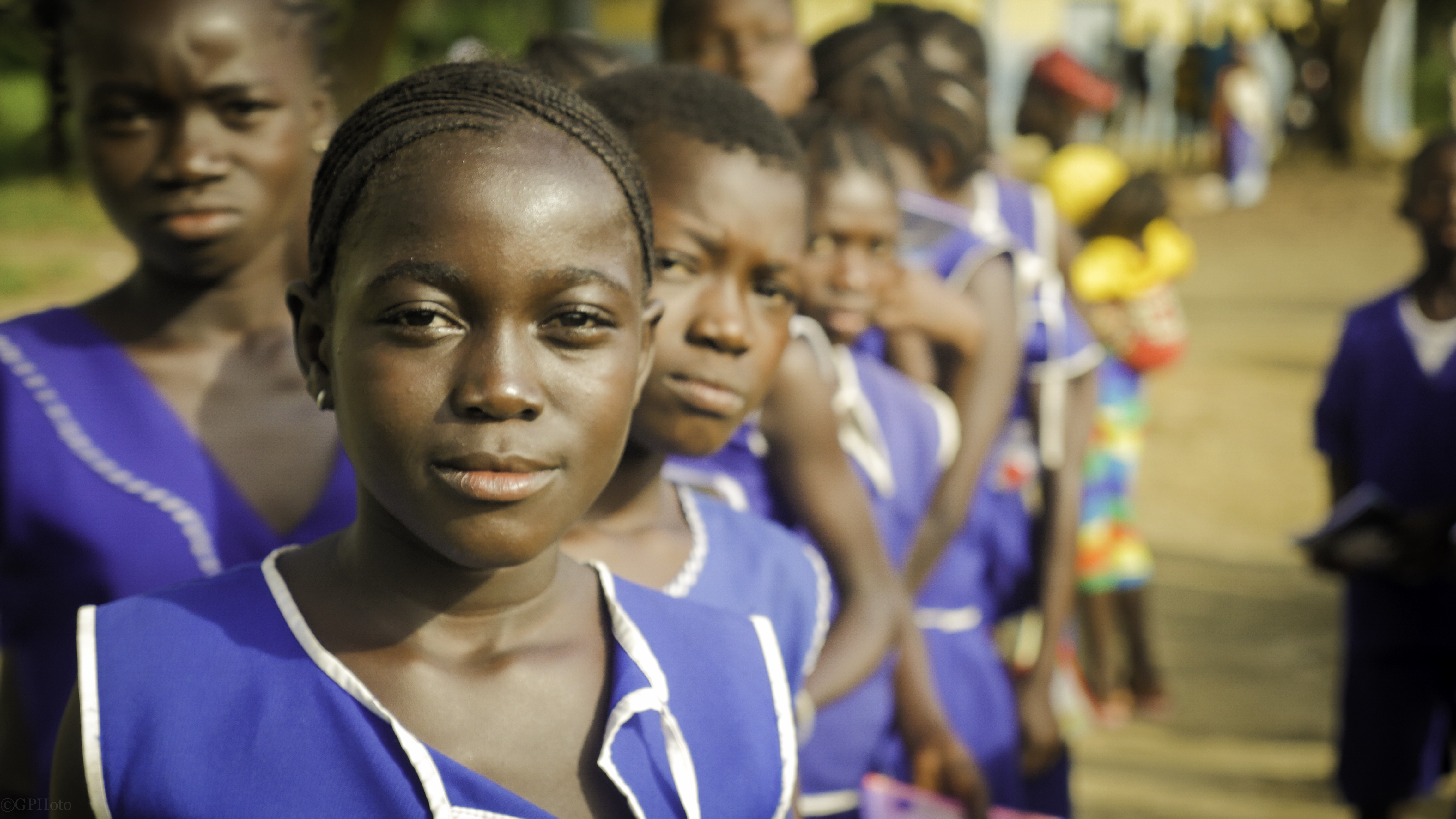 A young aspirational school girl lines up ready for class in rural Sierra Leone. This is an image of "African people at work" from Sierra Leone